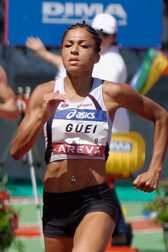 Floria Guei wins the women's 400-metre race in 52′05″ during the French Athletics Championships 2013 at Stade Charléty in Paris, 14 July 2013.